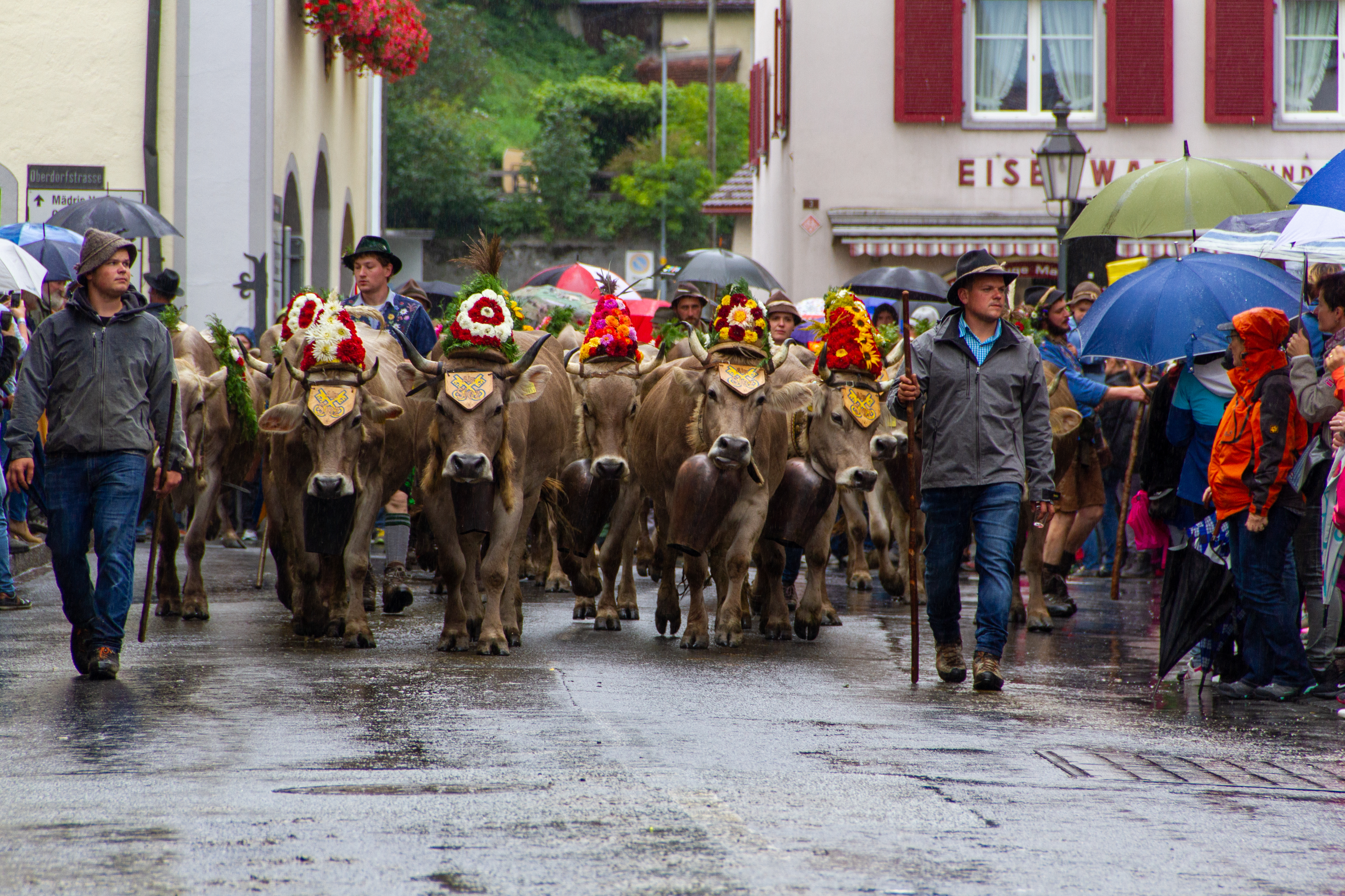 Cattle drive in Mels, Switzerland. Alp Siez. 2017